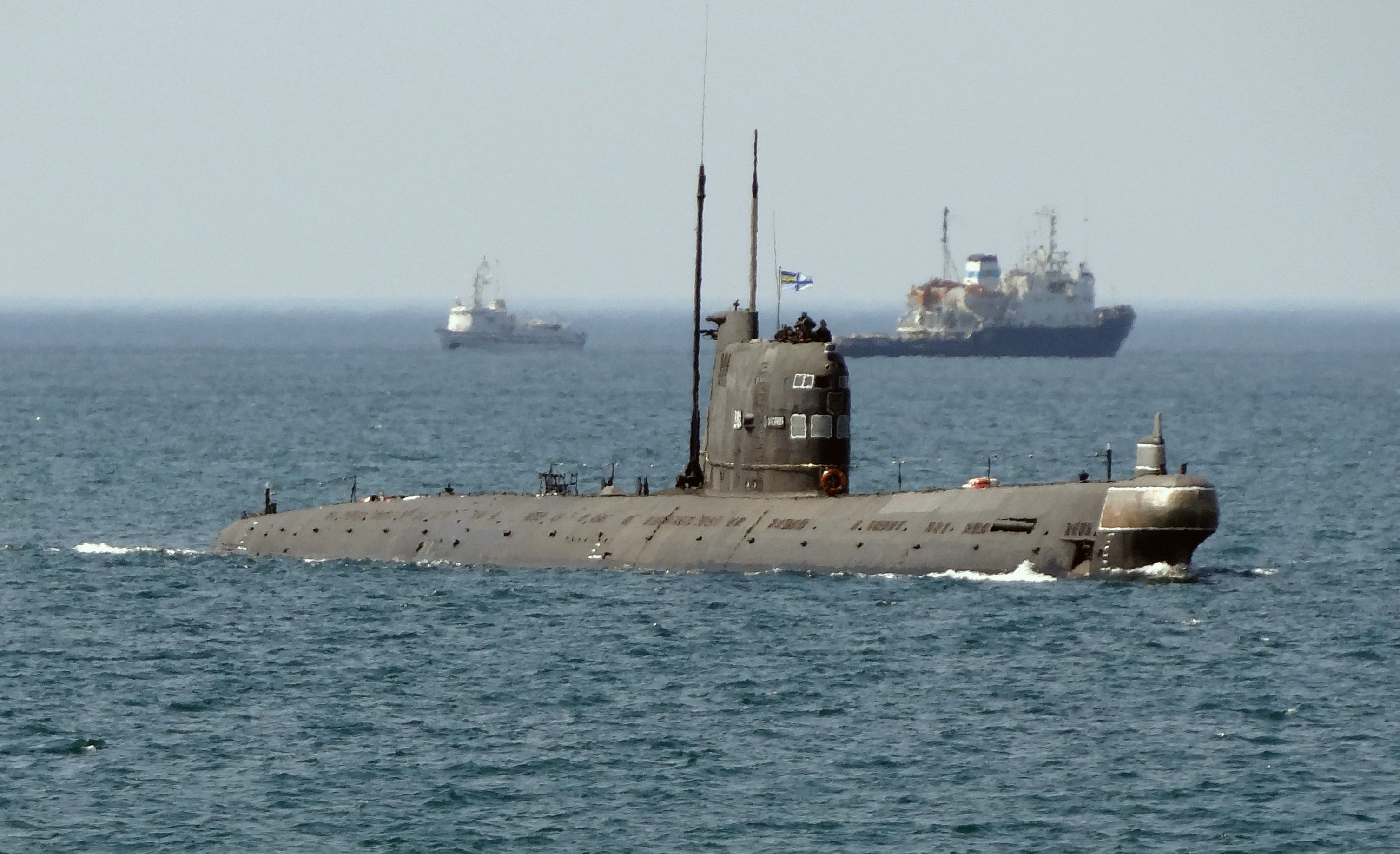 Ukrainian submarine Zaporizhzhia